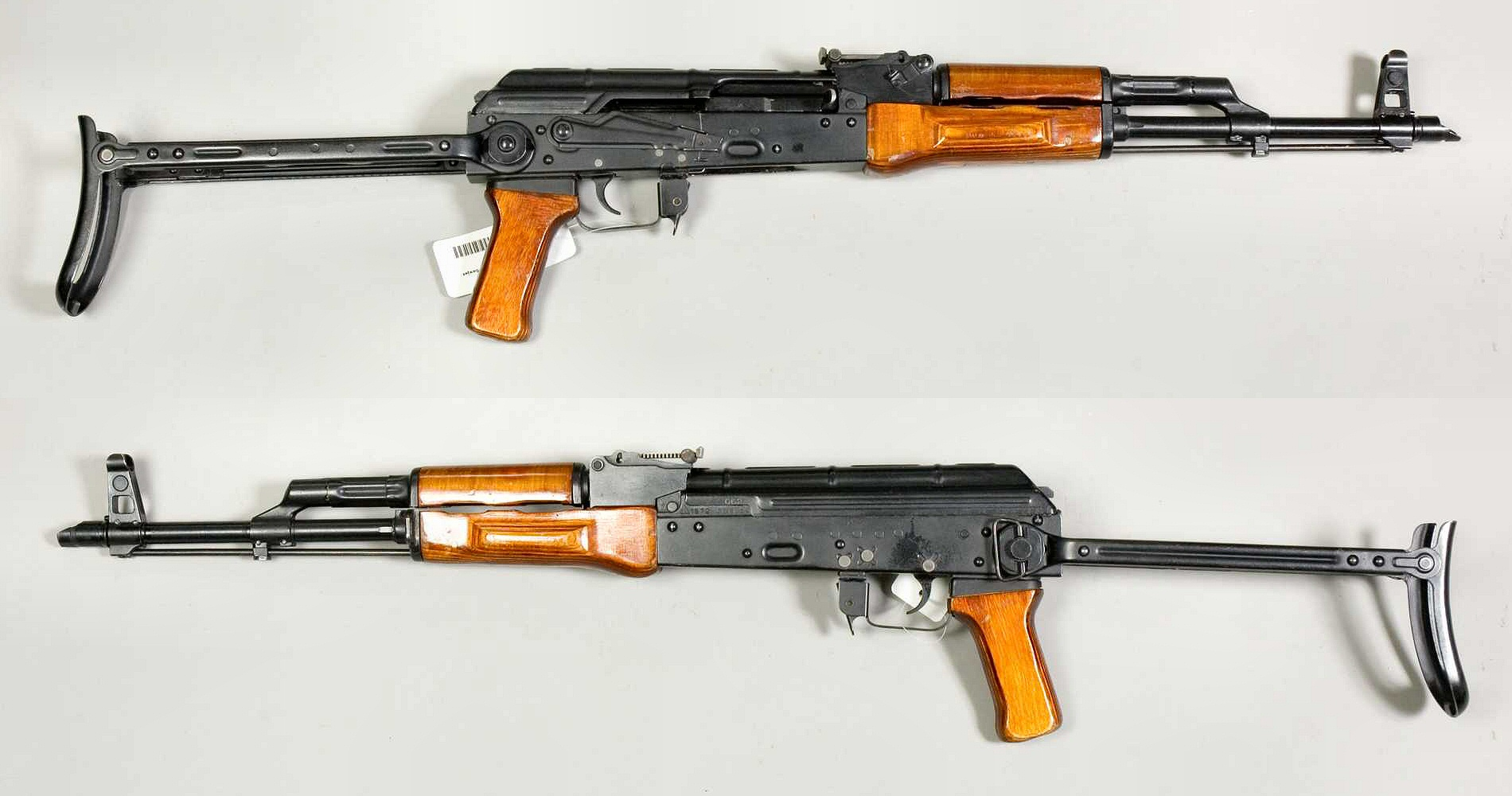 AKMS without magazine. Caliber 7,62x39mm. From the collections of Armémuseum (Swedish Army Museum), Stockholm, Sweden.